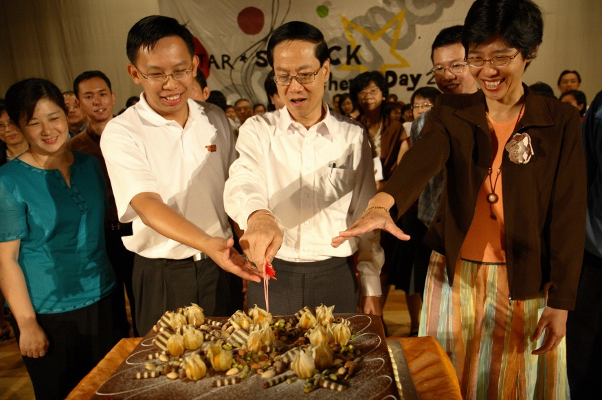 Teachers' Day celebrations in Hwa Chong Institution (College Section).